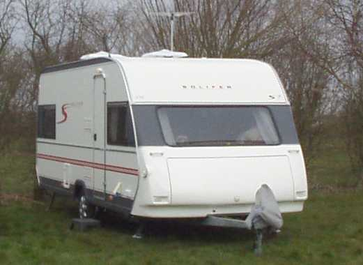 Picture of a Solifer travel trailer